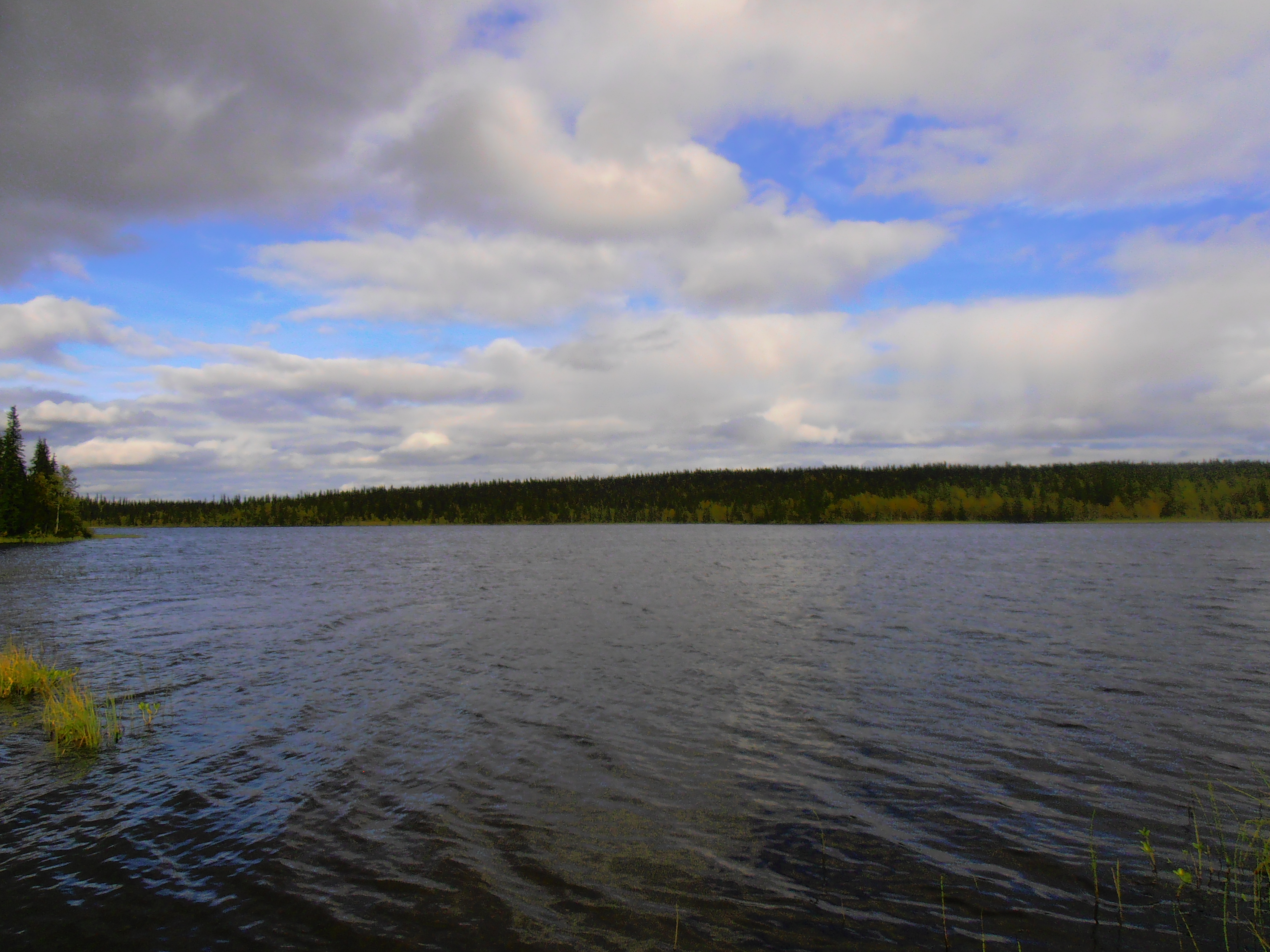 Avvakko lake, Gällivare